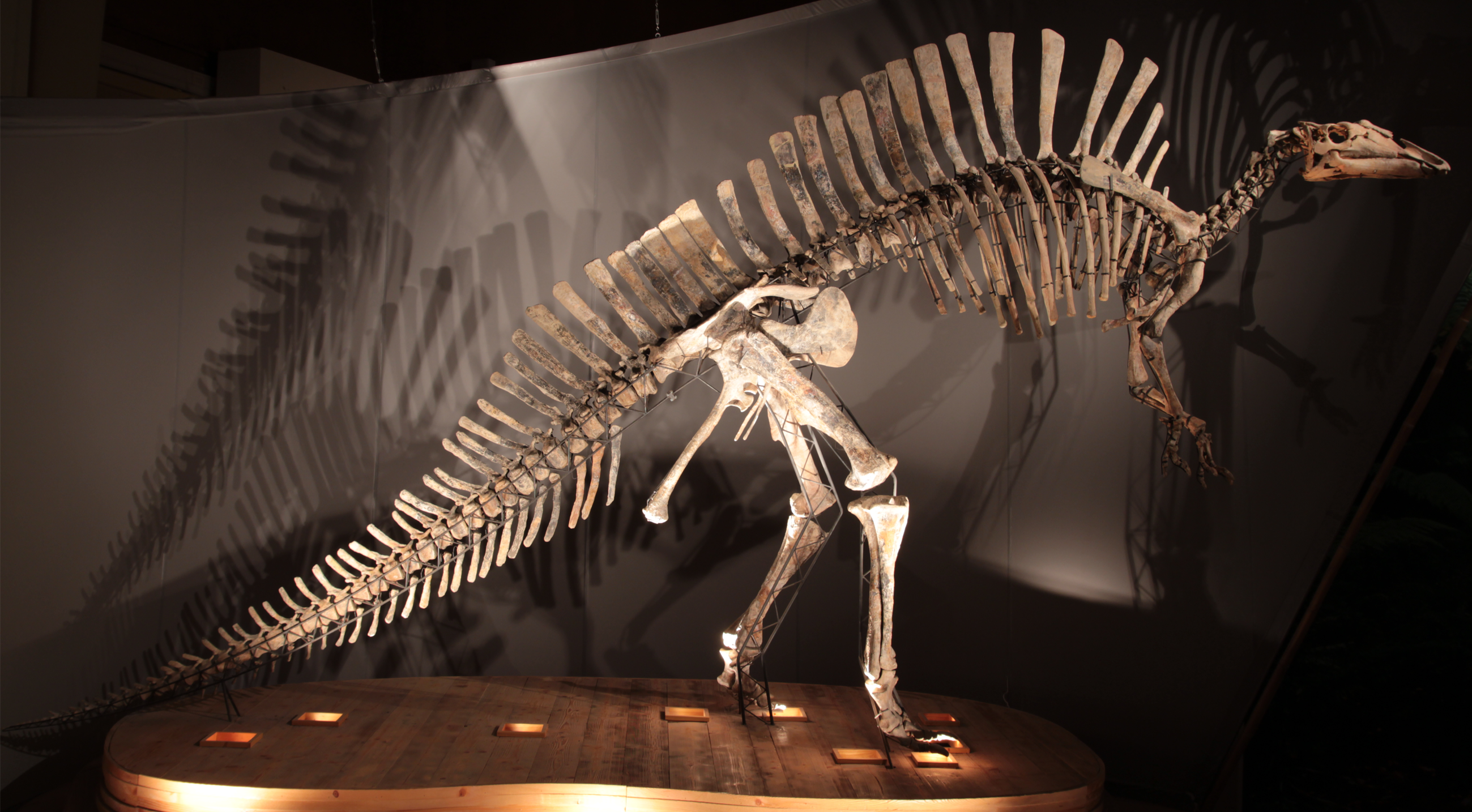 MSNVE 3714, Ouranosaurus nigeriensis. The mounted specimen as exhibited today at the MSNVE. For scale, the right femur is 920 mm long.